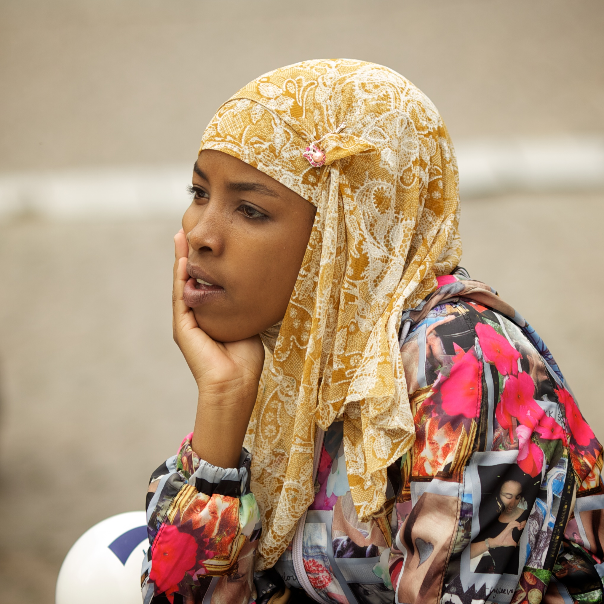 African girl